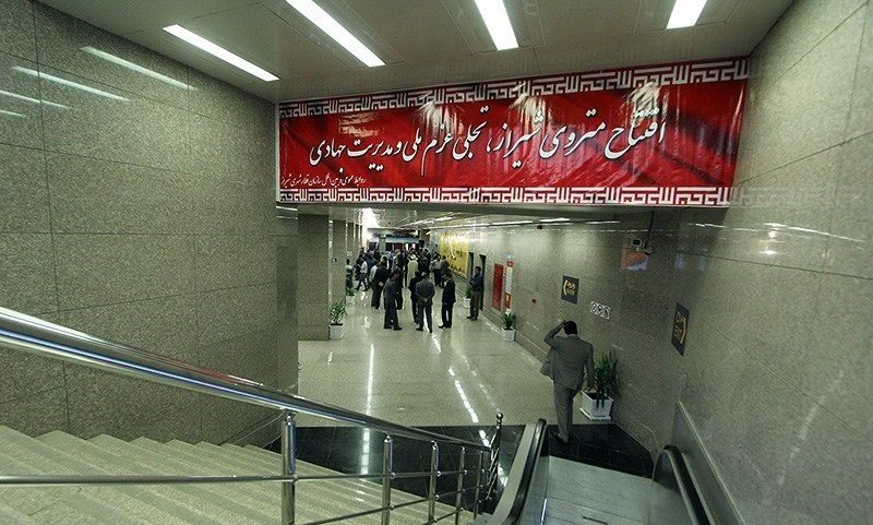 Shiraz metro. The red banner says “Opening of the Shiraz Metro, expression of national determination and Jihadi management” (افتتاح متروی شیراز٬ تجلی عزم ملی و مدیریت جهادی) in Persian.